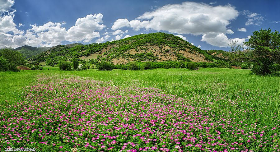 Nature of Agh Evlar village in Talesh County.